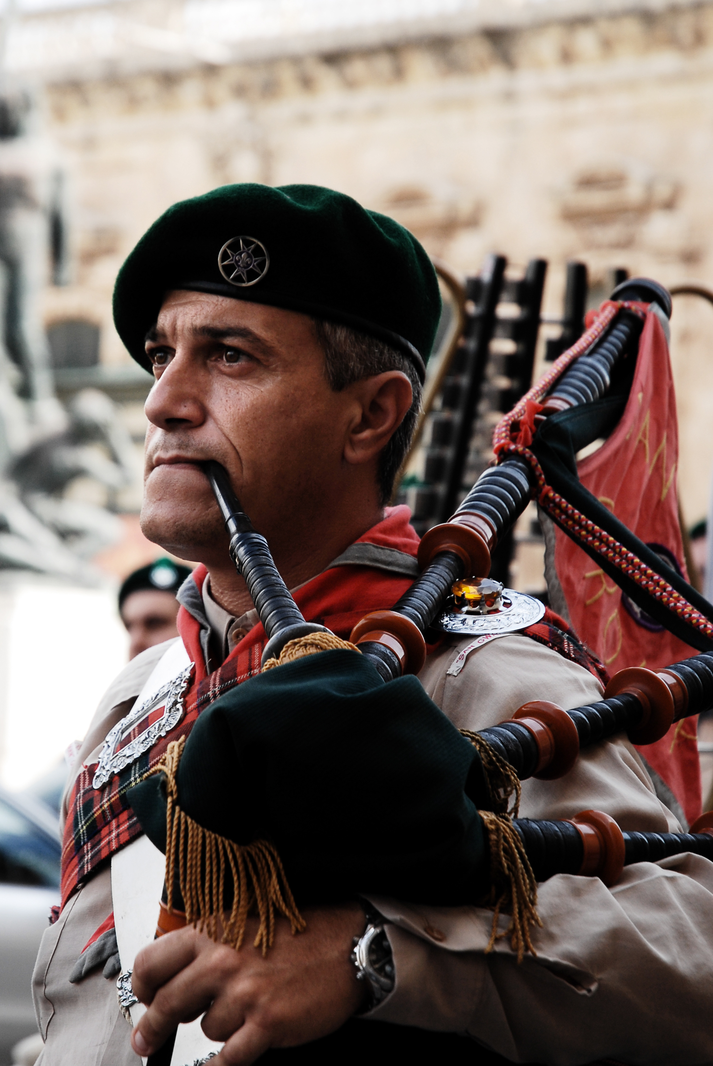 Bagpiper on a street of Valletta, Malta, Mediterranean Sea.